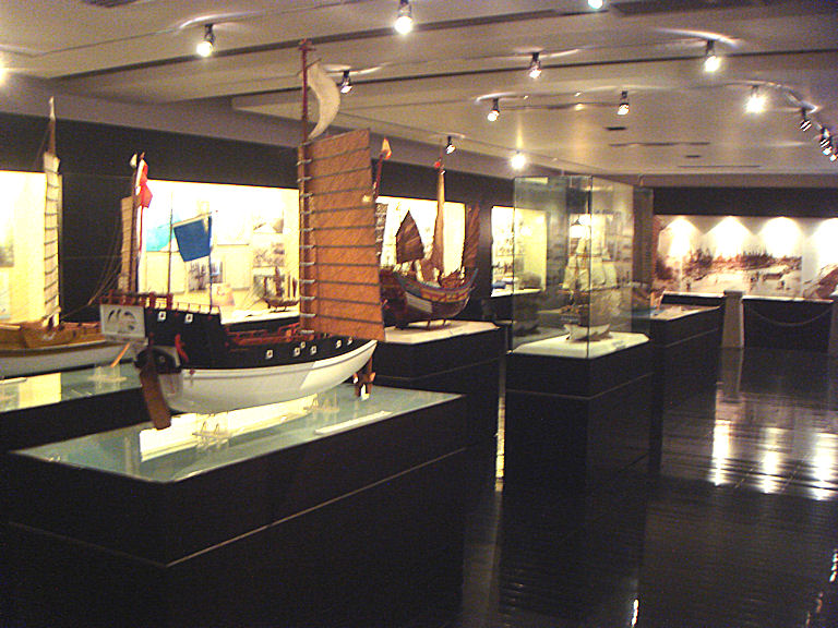 Tung_Museum_inside